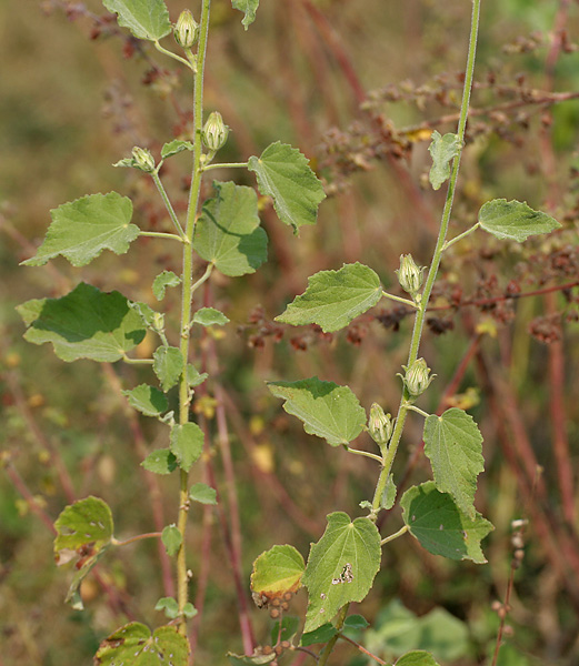 Hibiscus panduriformis (syn. Hibiscus friesii , Hibiscus multistipulatus ) in Kawal Wildlife Sanctuary, Andhra Pradesh, India.